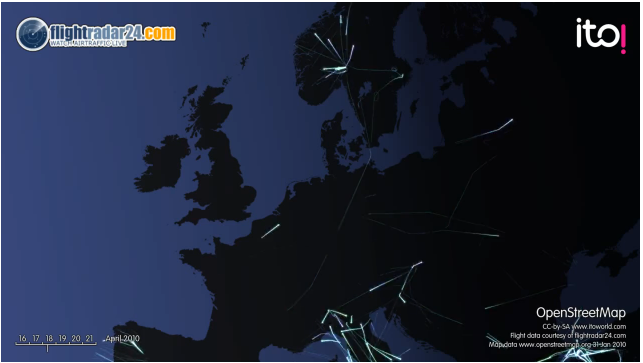 Only a very few flights over Europe following flight disruption after the Eyjafjallajökull eruption. Flights from Oslo are operating and over Italy. Note the animation has no source data for parts of France and Spain and possibly other places.